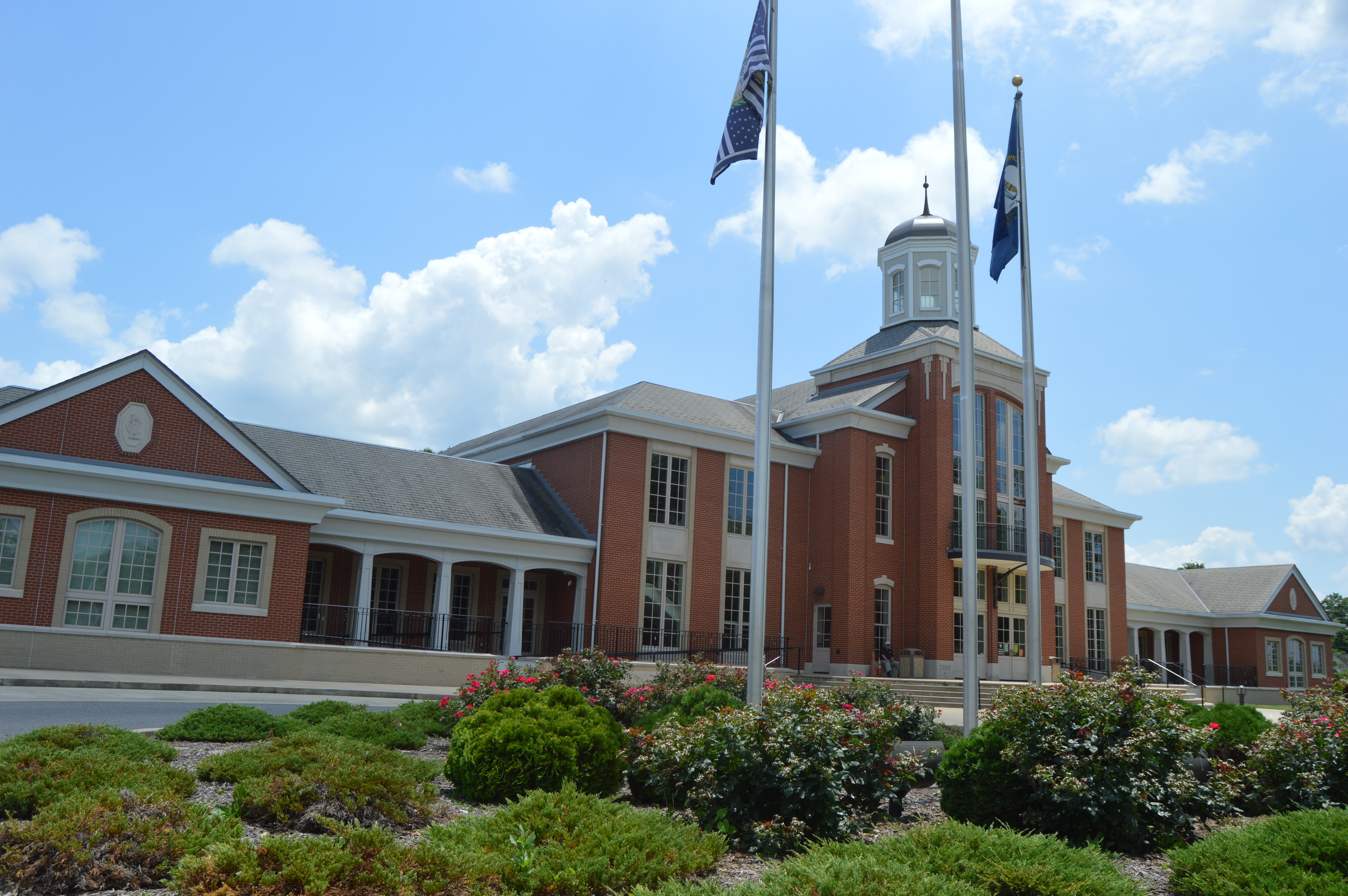 Front of the Livingston County Courthouse, located on Adair Street (U.S. Route 60) in Smithland, Kentucky, United States. It was built in 2009.